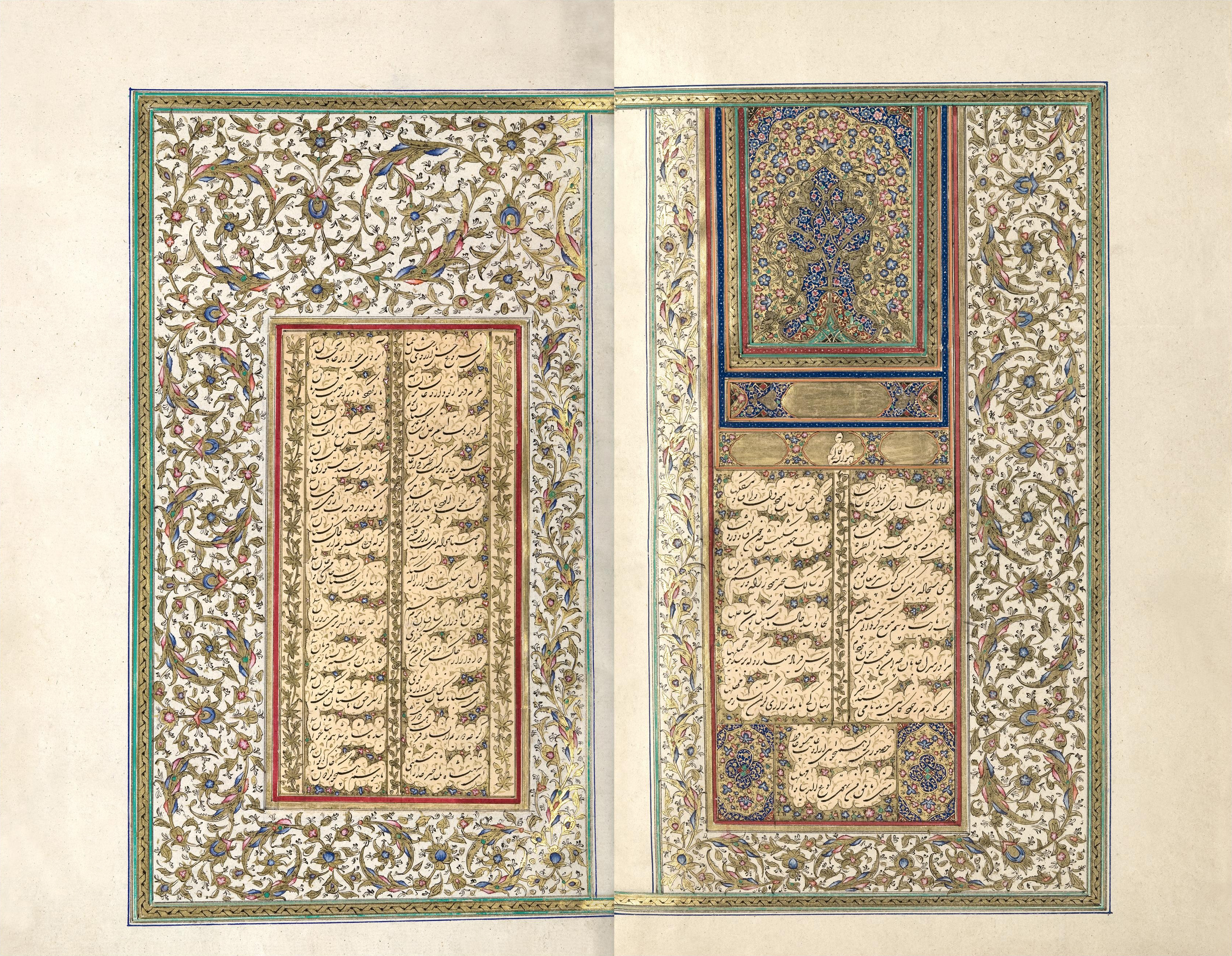 Two pages of the manuscript of Hafez Shirazi's Divan. Preserved in the Treasury of the National Library and Museum of Malek, Tehran